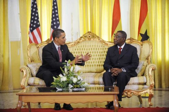 US President Barack Obama speaks with Ghanaian President John Atta Mills during a meeting at the Presidential Castle in Accra, Ghana 11 July 2009.